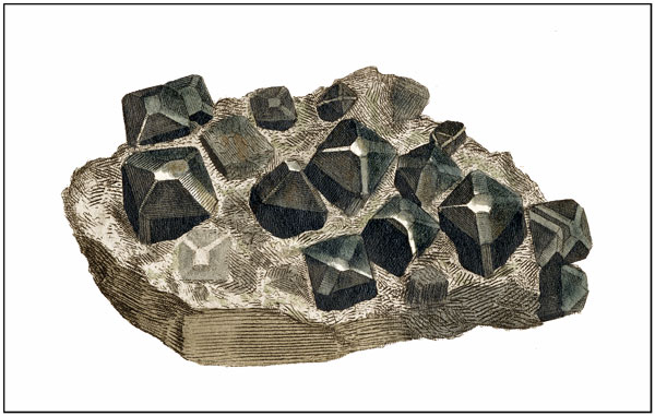 Cassiterite from Cornwall Hand-colored copper-plate engraving (1803) depicting actual-size a 3-inch specimen presumably in the collection of James Sowerby. Published as Plate 18, Volume 1, of Sowerby's British Mineralogy